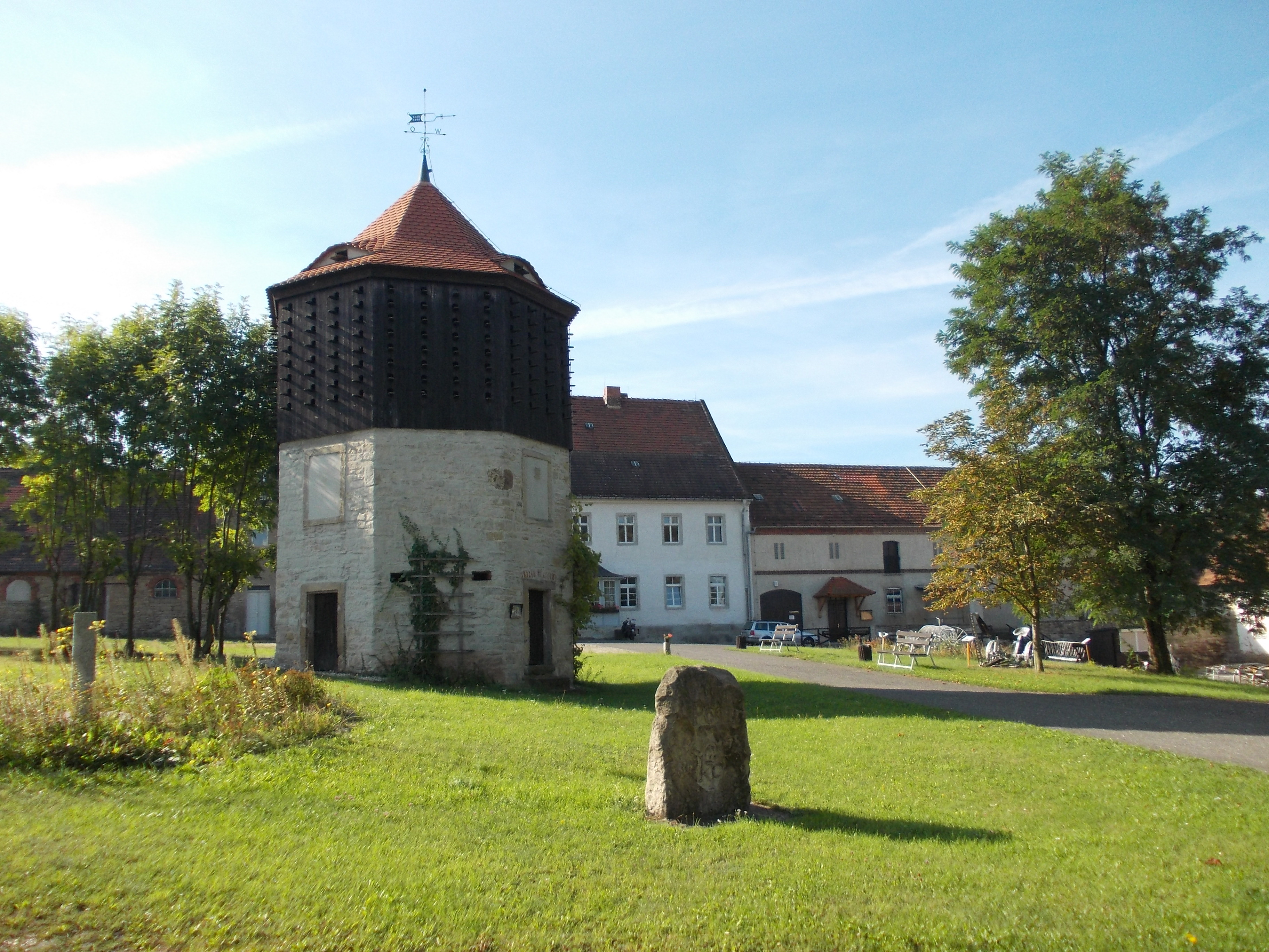 Former Posa monastery with dovecote (Zeitz, district of Burgenlandkreis, Saxony-Anhalt)